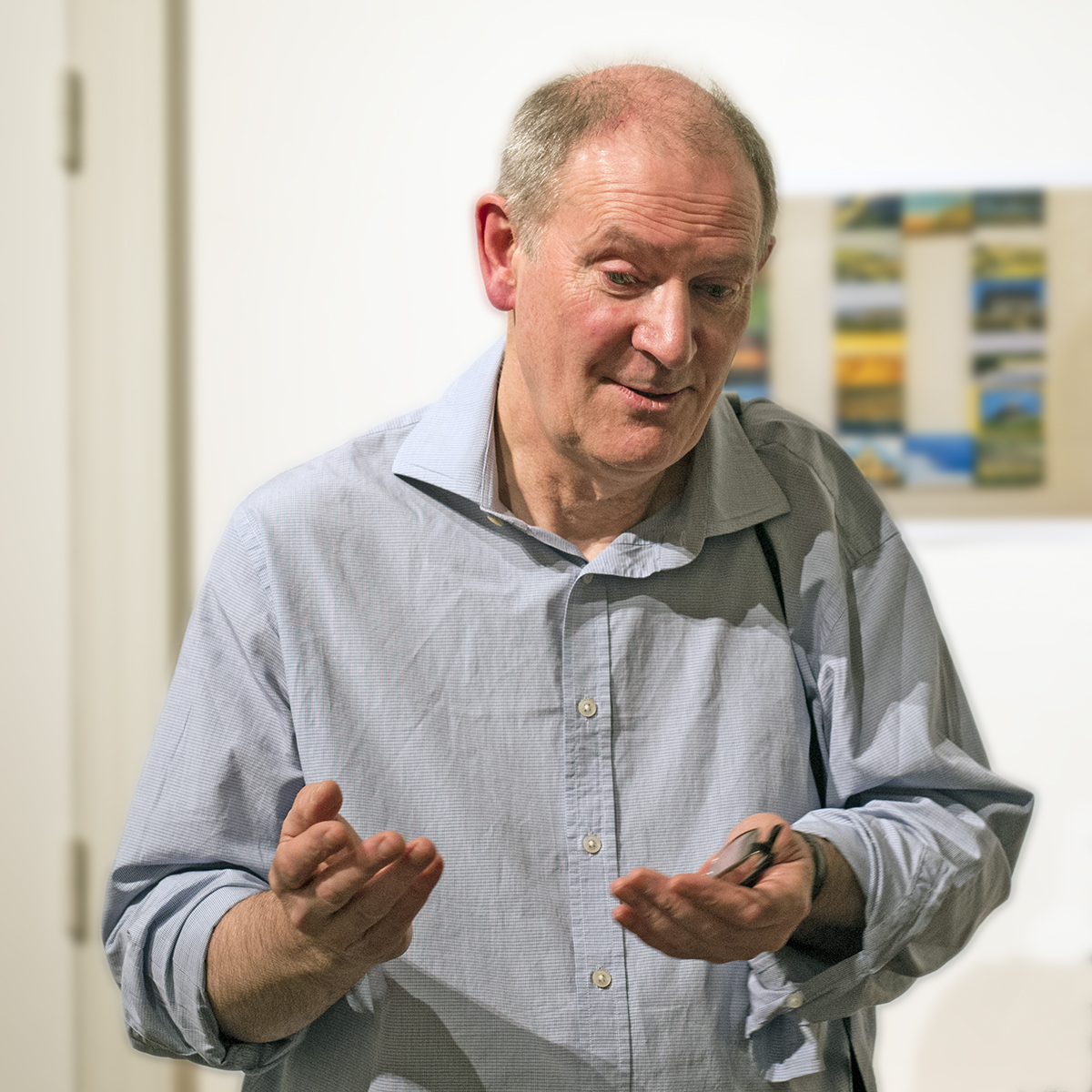 Tom Wood at Centre Culturel Irlandais, Paris, 12. Nov. 2015